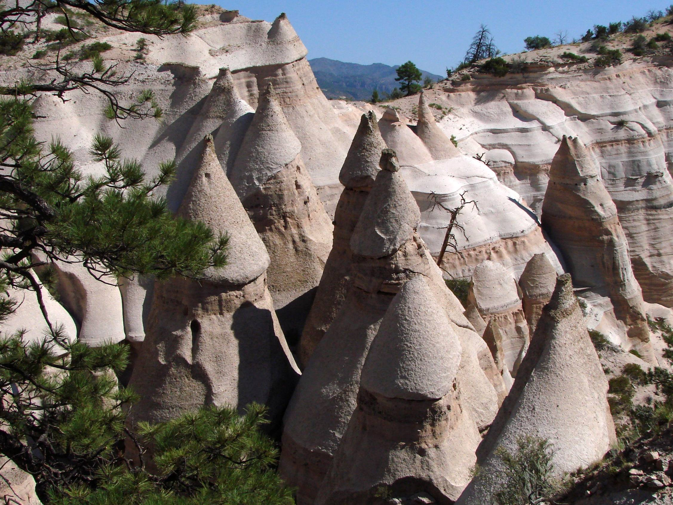 Tent Rocks National Monument, New Mexico